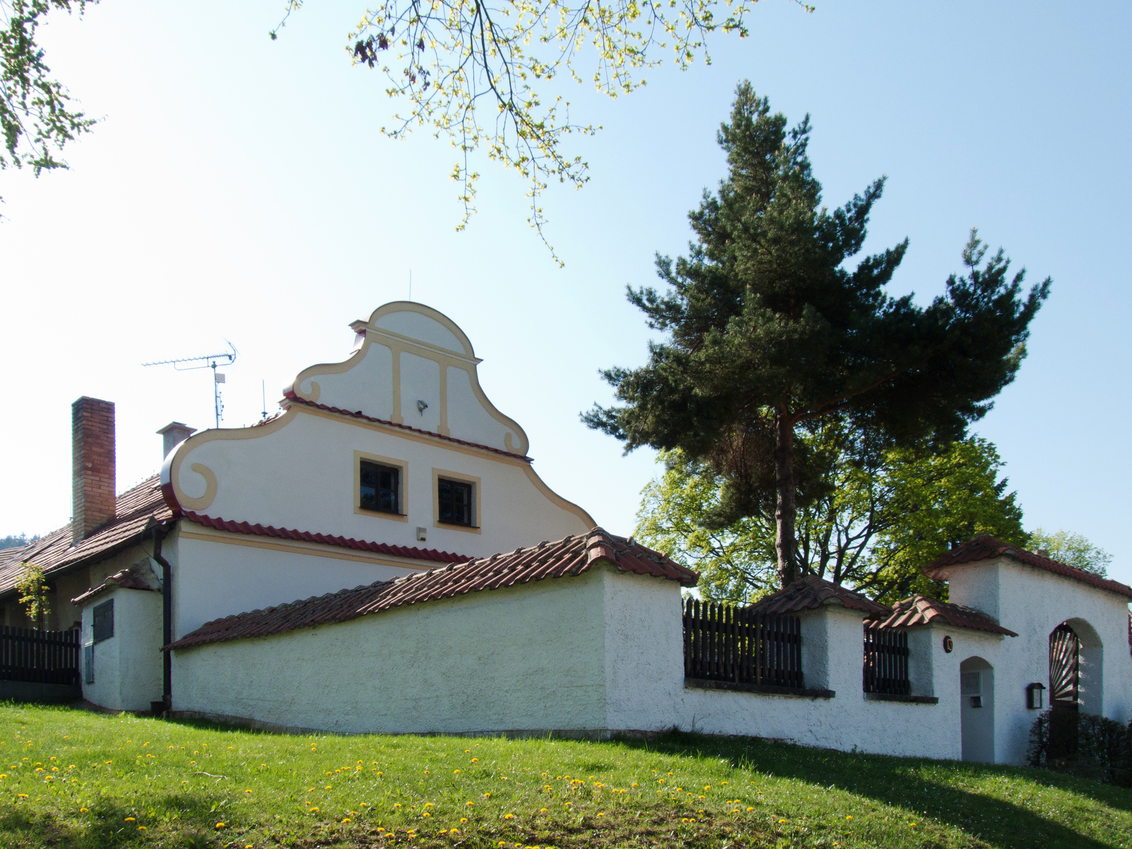 House No 13 in the village of Třešovice, Strakonice District, Czech Republic.